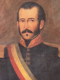 This is a portrait of a Bolivian President who died over 100 years ago.